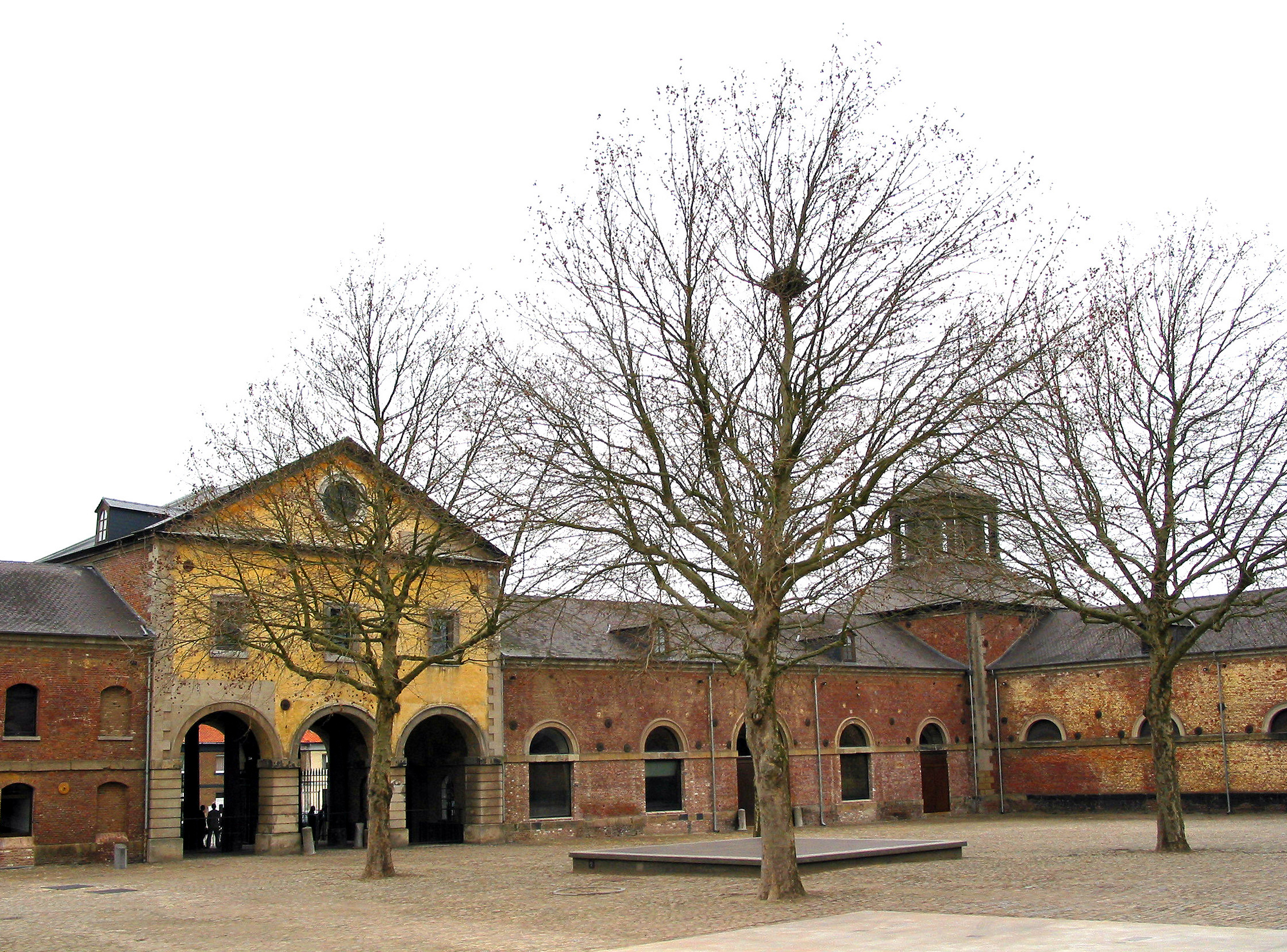 Hornu (Belgium), courtyard of the former industrial complex called "Grand-Hornu" built by Henri De Gorge between 1810 and 1830 according to plans by architect Bruno Renard.